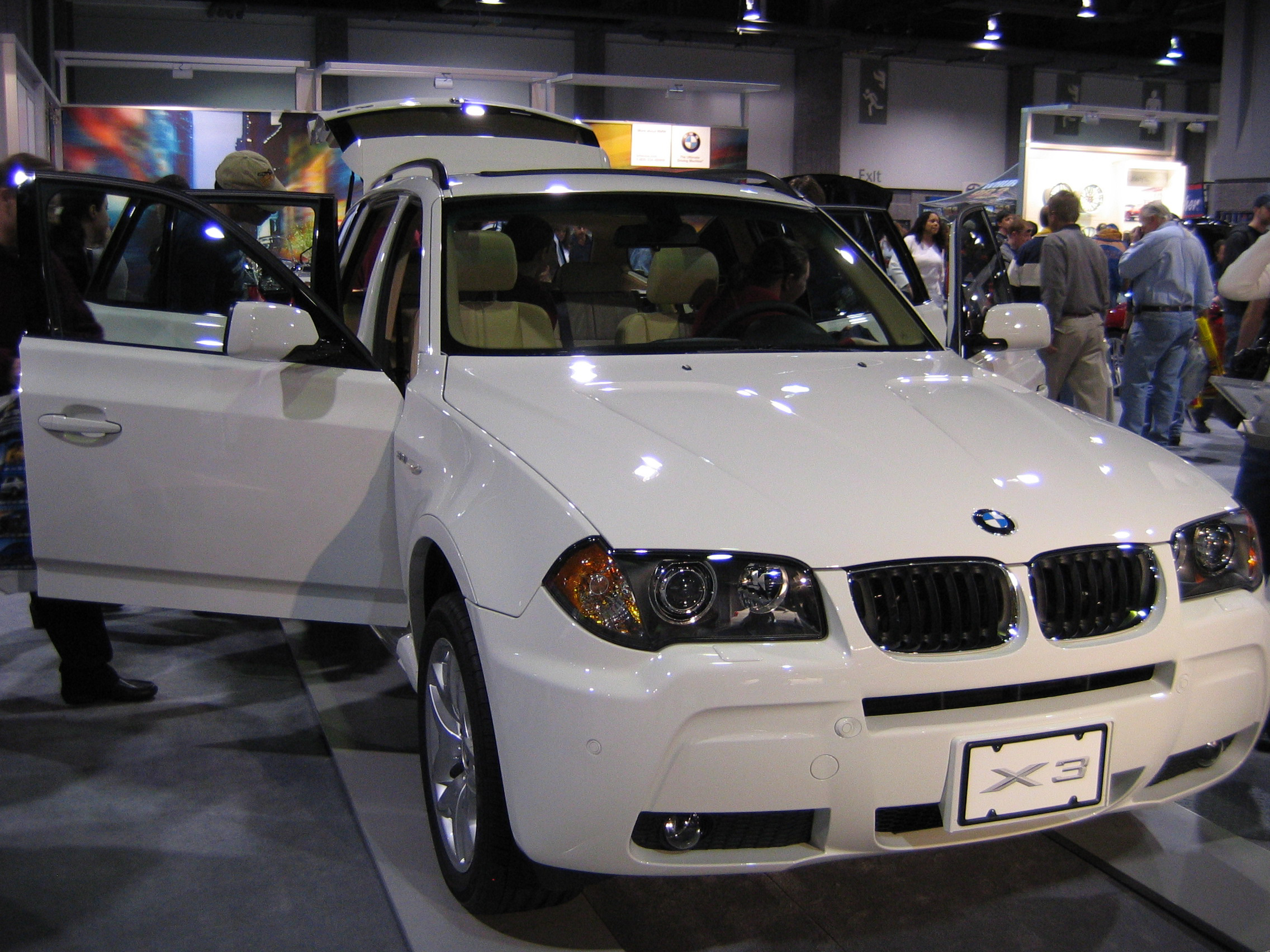 Photo by User:Aude, taken at the 2006 Washington Auto Show.